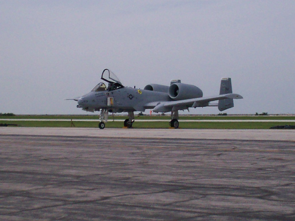 Picture taken by me at the 2006 Cleveland Air show.